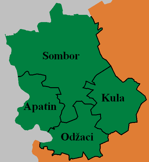 West Backa District map